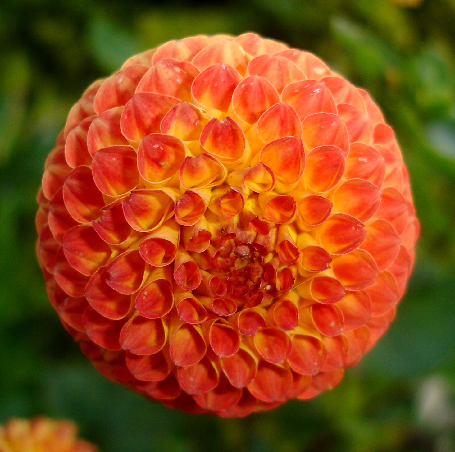 A red dahlia pompom.